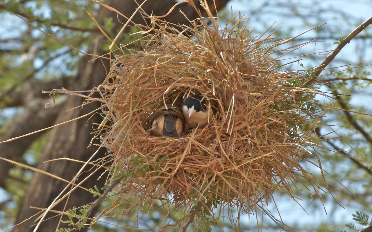 Black-capped social weavers (Pseudonigrita cabanisi) building nest at Sopa Samburu Lodge, Samburu National Reserve, Kenya